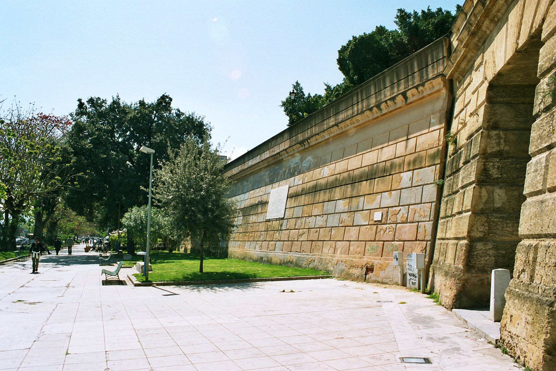 Mura delle Cattive, Palermo. Town wall of palermo